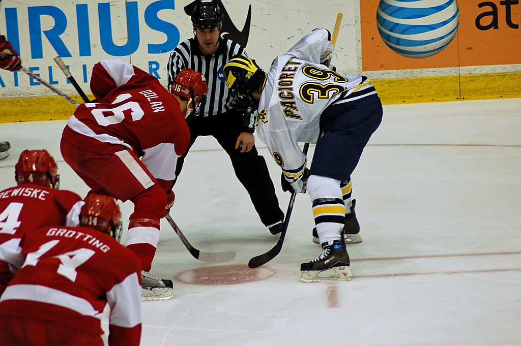 Max Pacioretty (39) prepares for the faceoff, University of Michigan